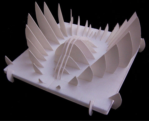 3-D Sculpture Styrofoam and Foam Core February 2007